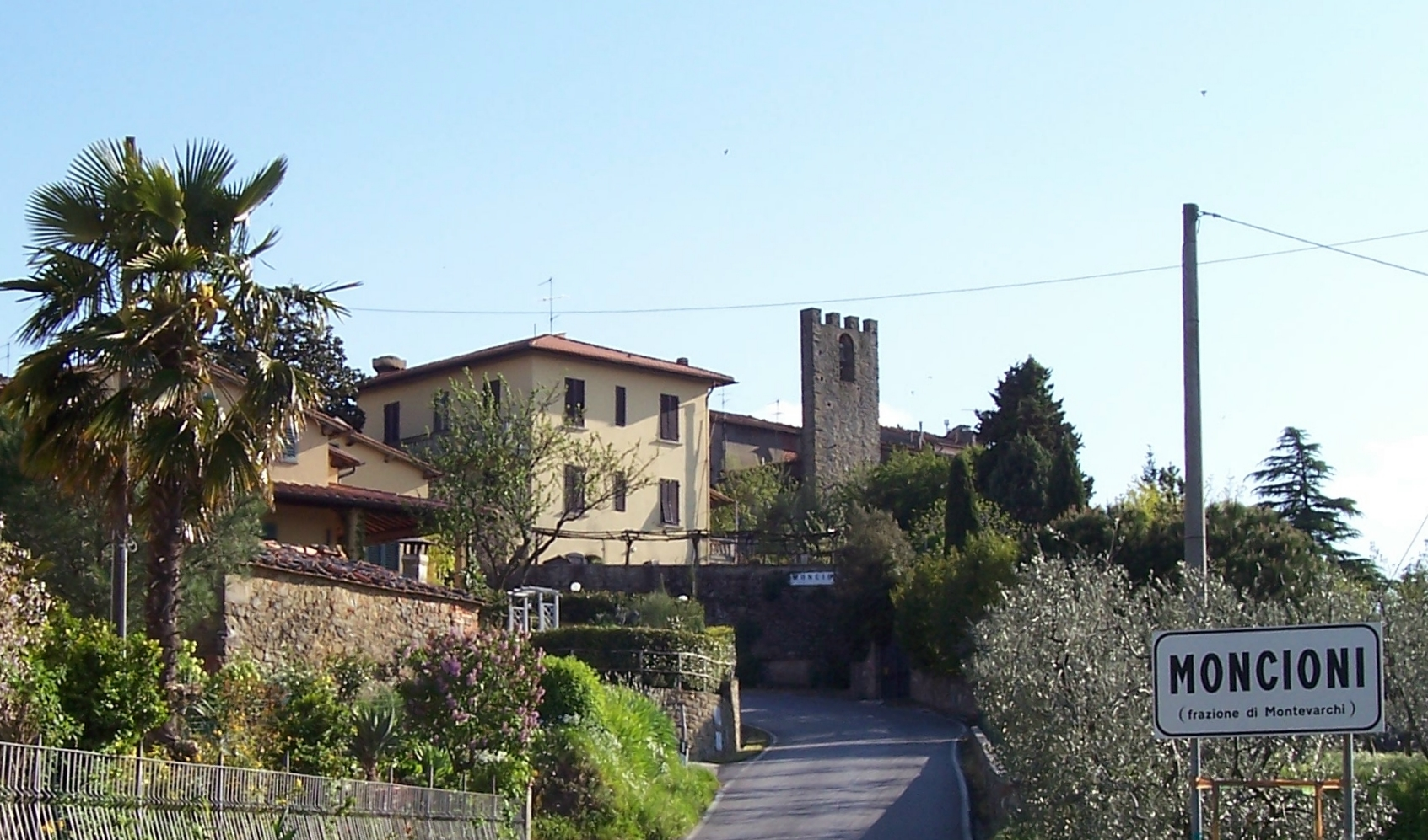 Ruins of the ancient Moncione Castle walls viewed from the street coming from Montevarchi